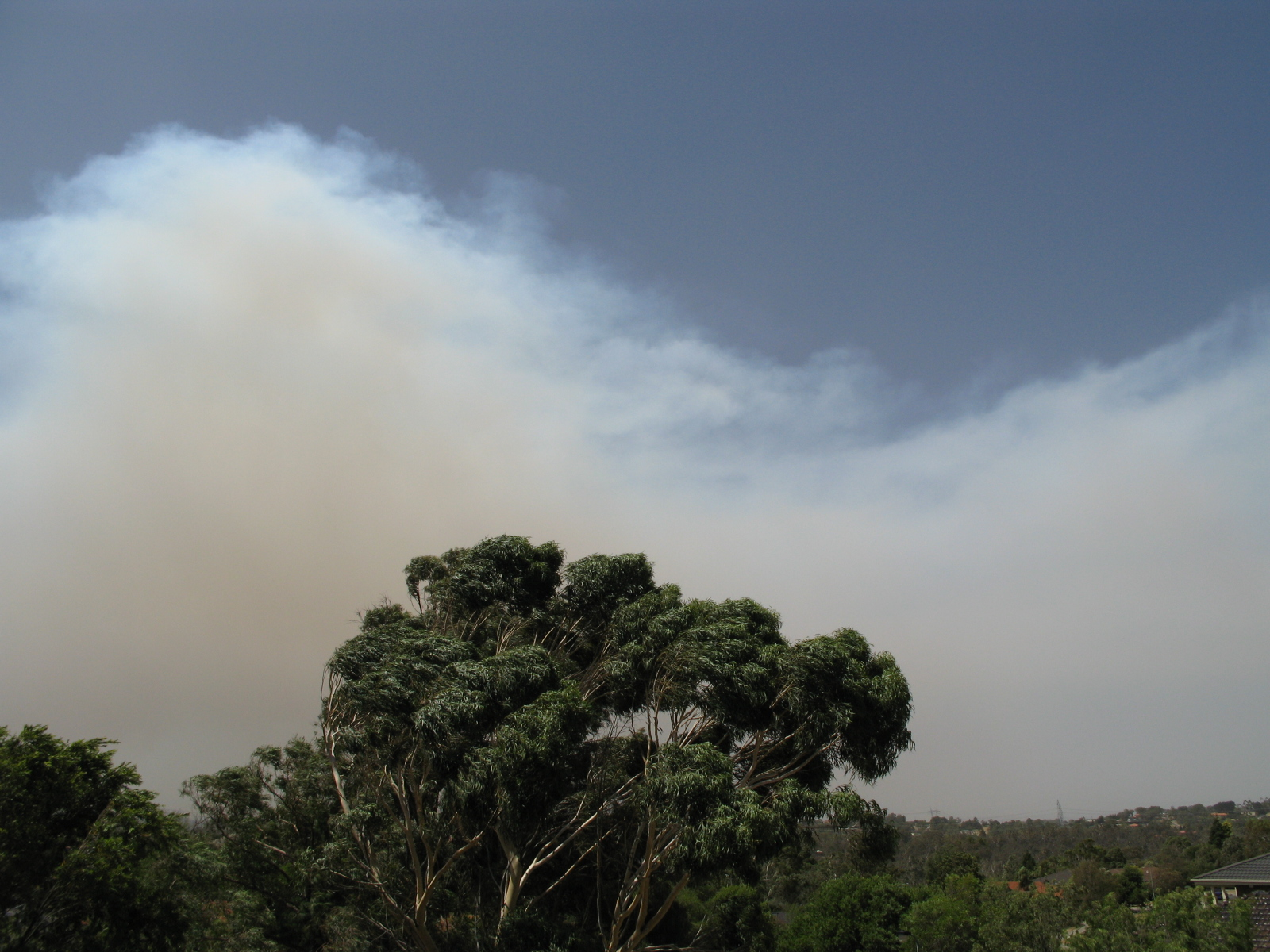 Smoke from the Kinglake Fire Complex during the afternoon, northeasterly wind direction, blowing smoke over Melbourne's outter north-east. Photo taken by myself looking towards the Yarra Valley and Kinglake areas, February 7 2009.